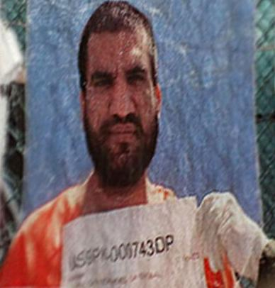 Department of Defence photograph of Mohammad Iqbal